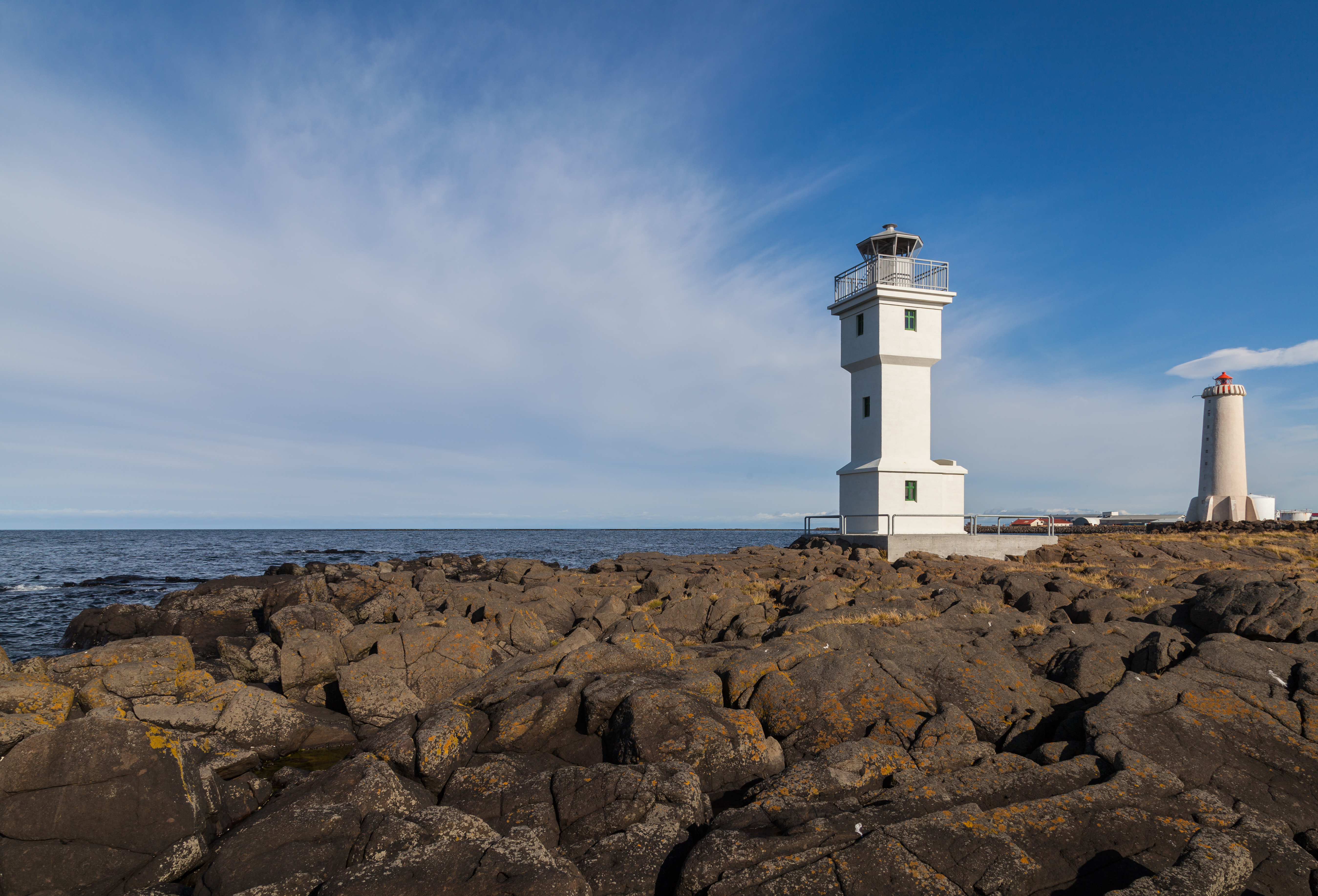 Akranes lighthouses, Vesturland, Iceland